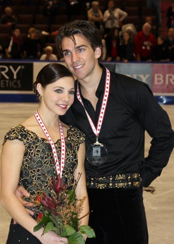 Jessica_Dubé & Bryce Davison following the medals ceremony and podium at the 2008 Skate Canada. They won the silver medal at this competiton.